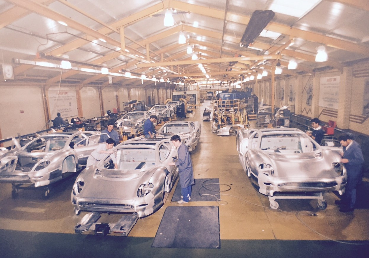 Jaguar XJ220 production at Abbey Panels c.1991